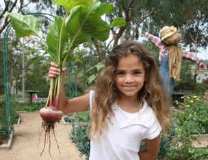 California AITC—A girl holds a beet in the garden.